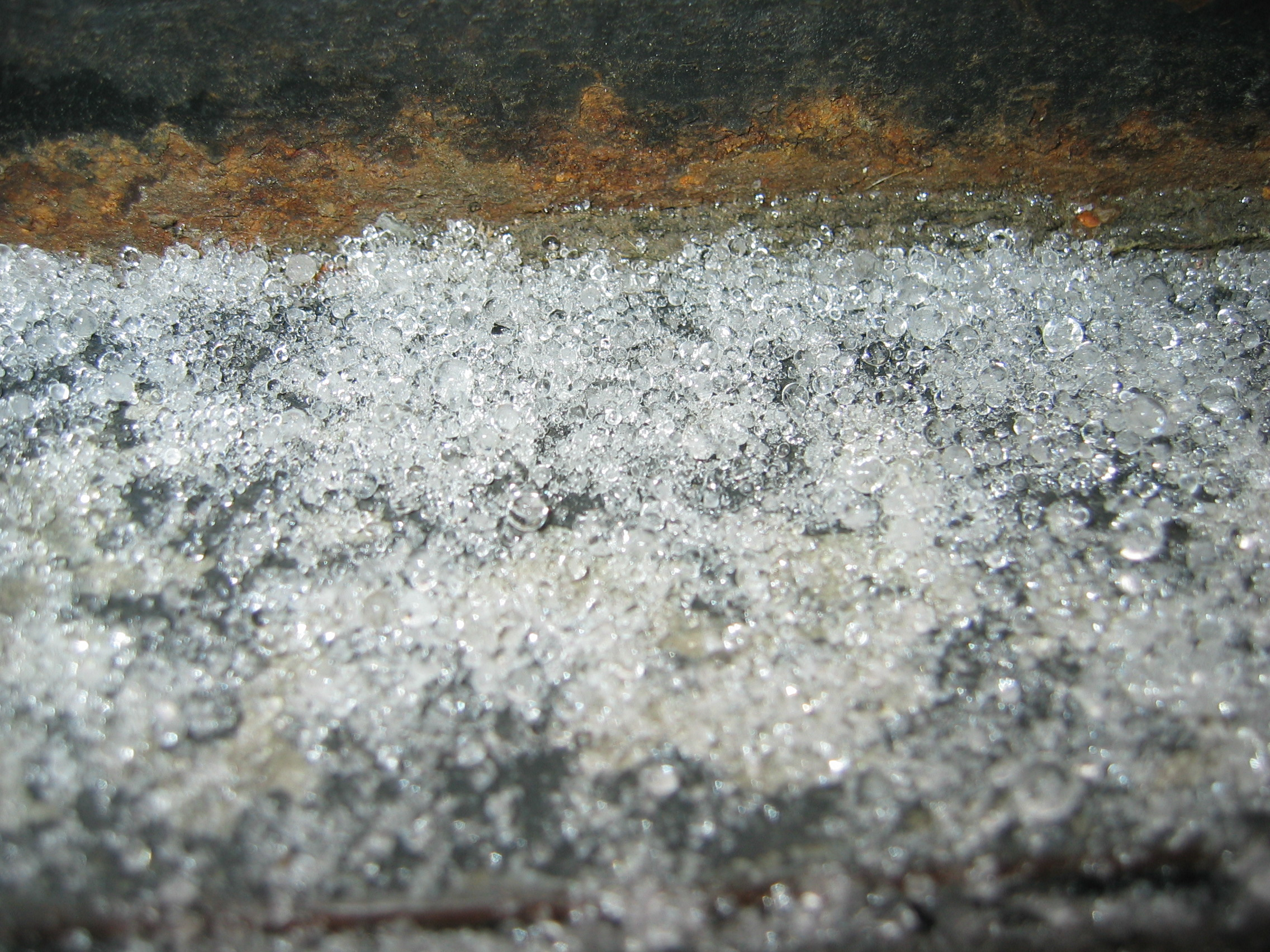 Ice pellets or ice needles